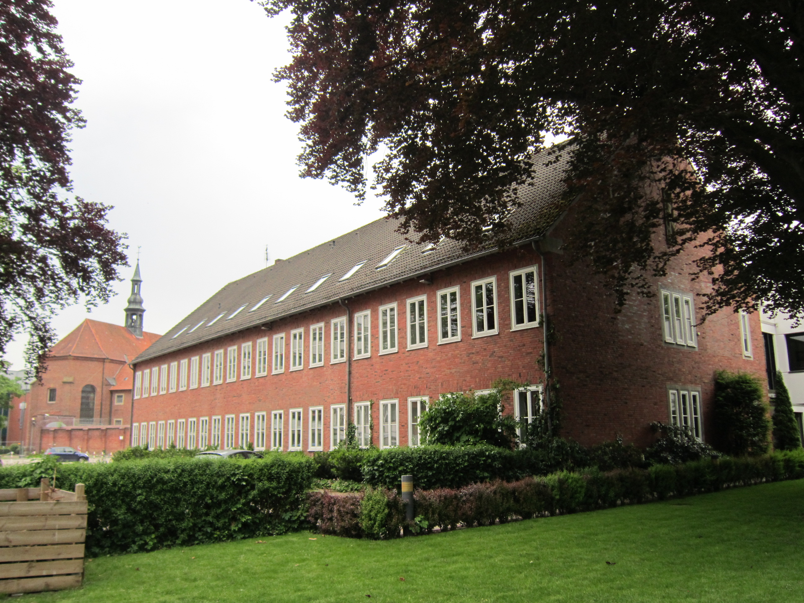 Vechta courtyard. In the background: Vechta Monastry Church